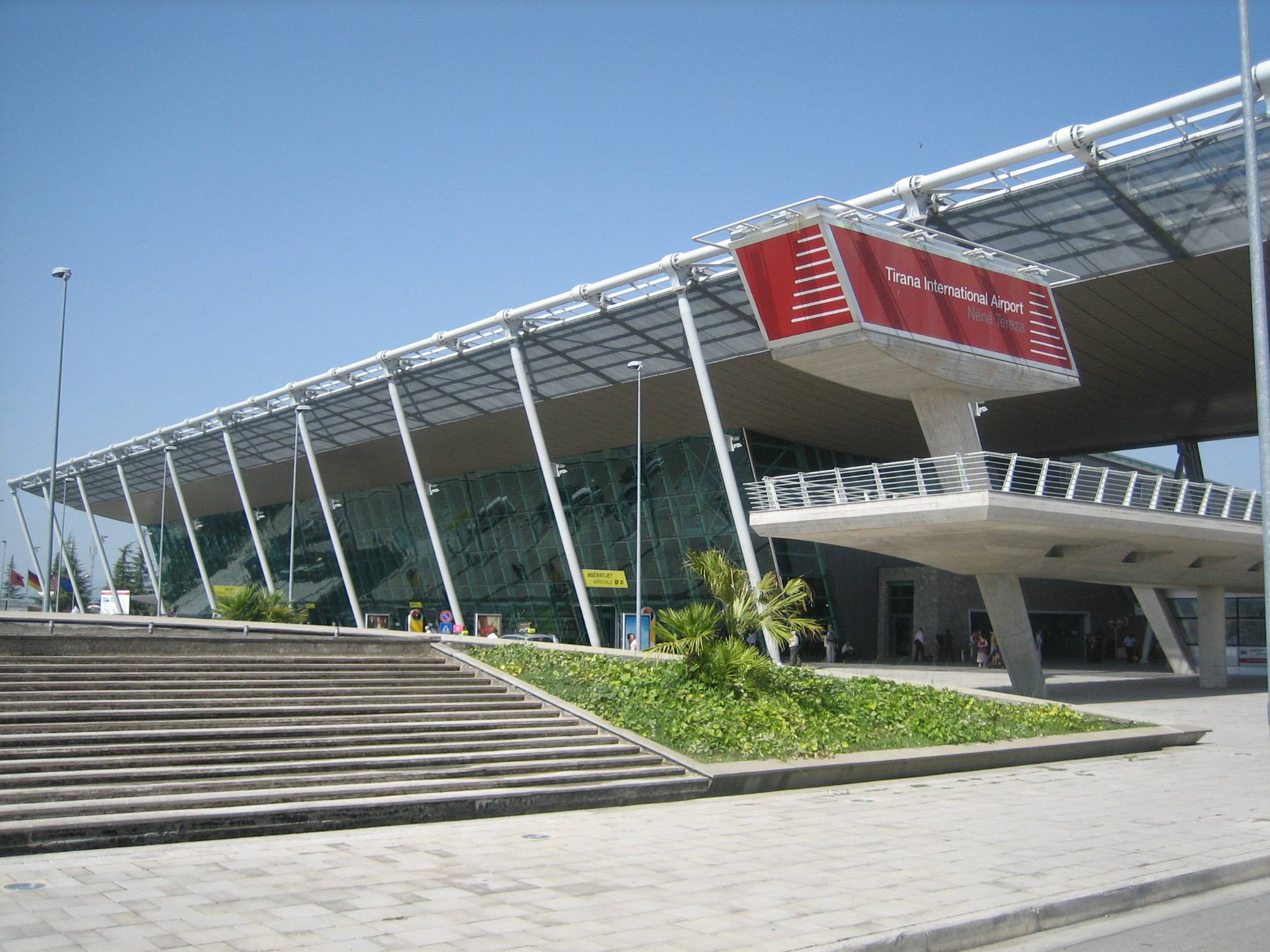 Tirana International Airport Nënë Tereza of Tirana, Albania